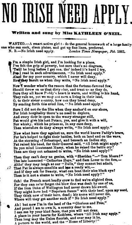 No Irish Need Apply (lyric sheet - female version) - 1862 American song